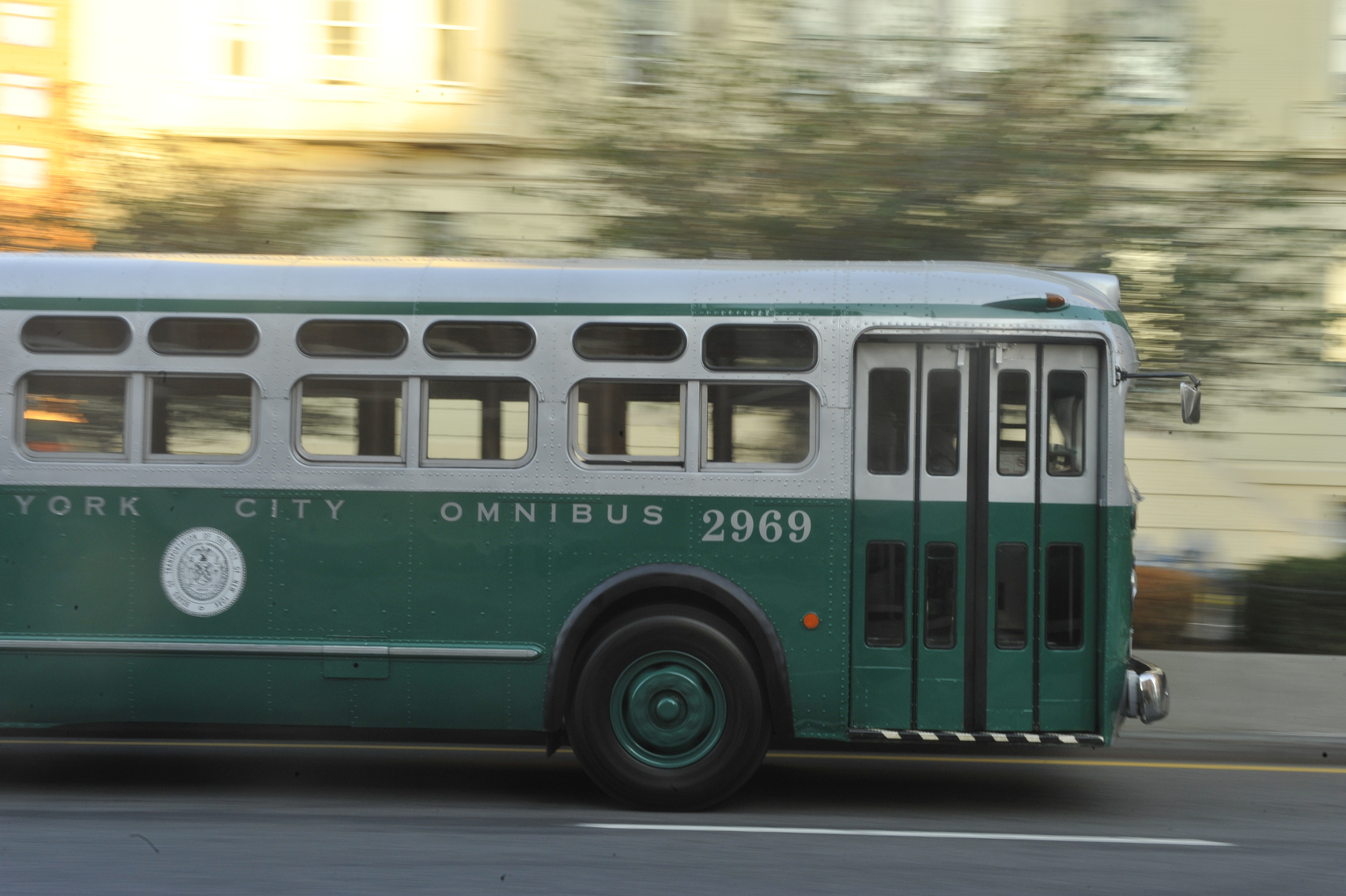 1948 GMC TDH-5101, #2969 lined up early this morning in preparation for the New York Transit Museum Bus Festival, being held in conjunction with the Atlantic Antic. Photo: Marc A. Hermann / MTA New York City Transit